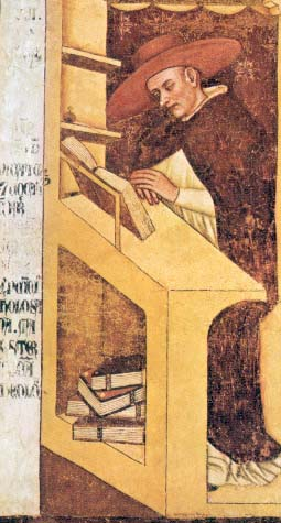 Master General of the Dominican Order (1349–1350).